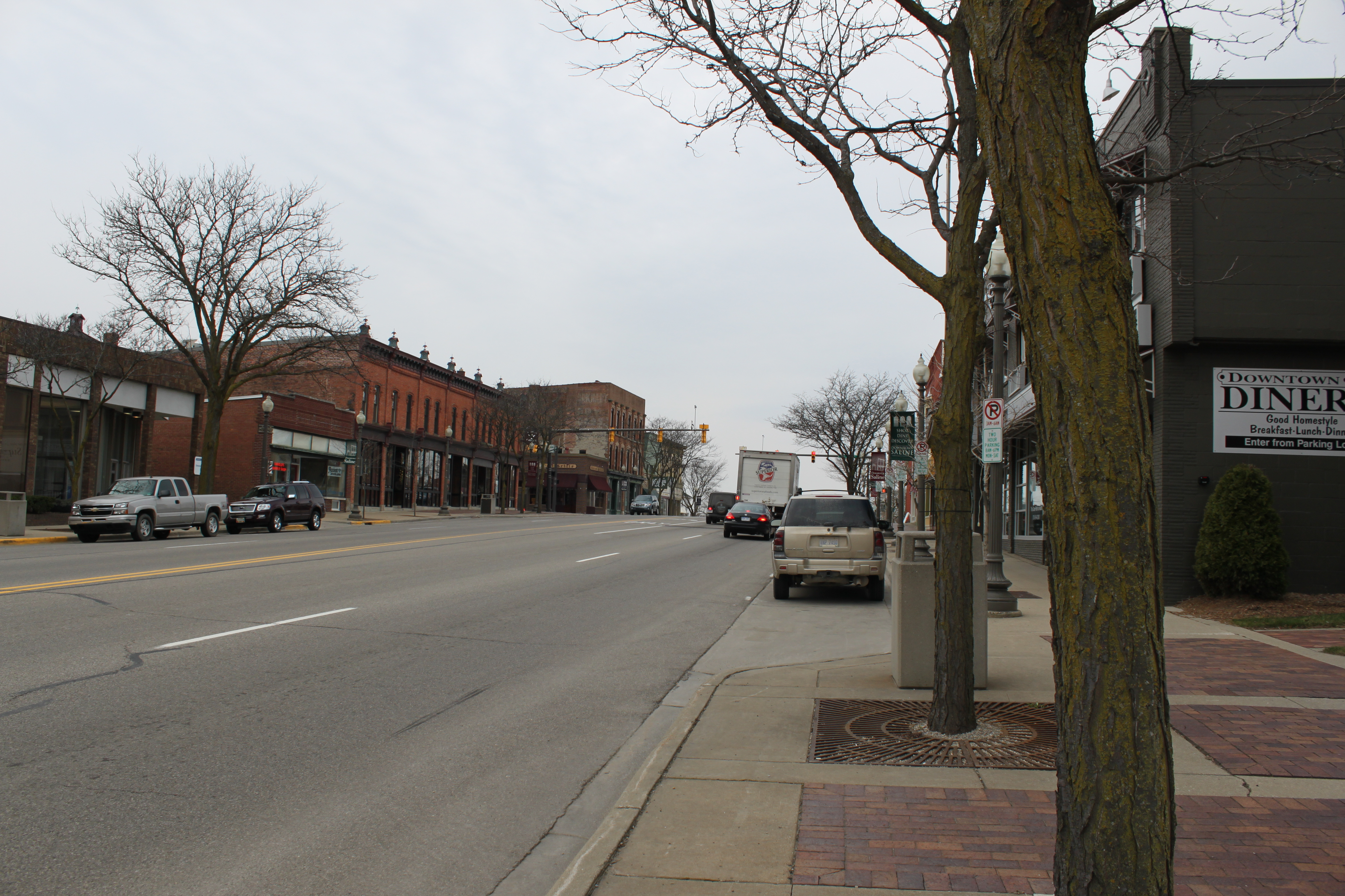 View of downtown Saline, Michigan